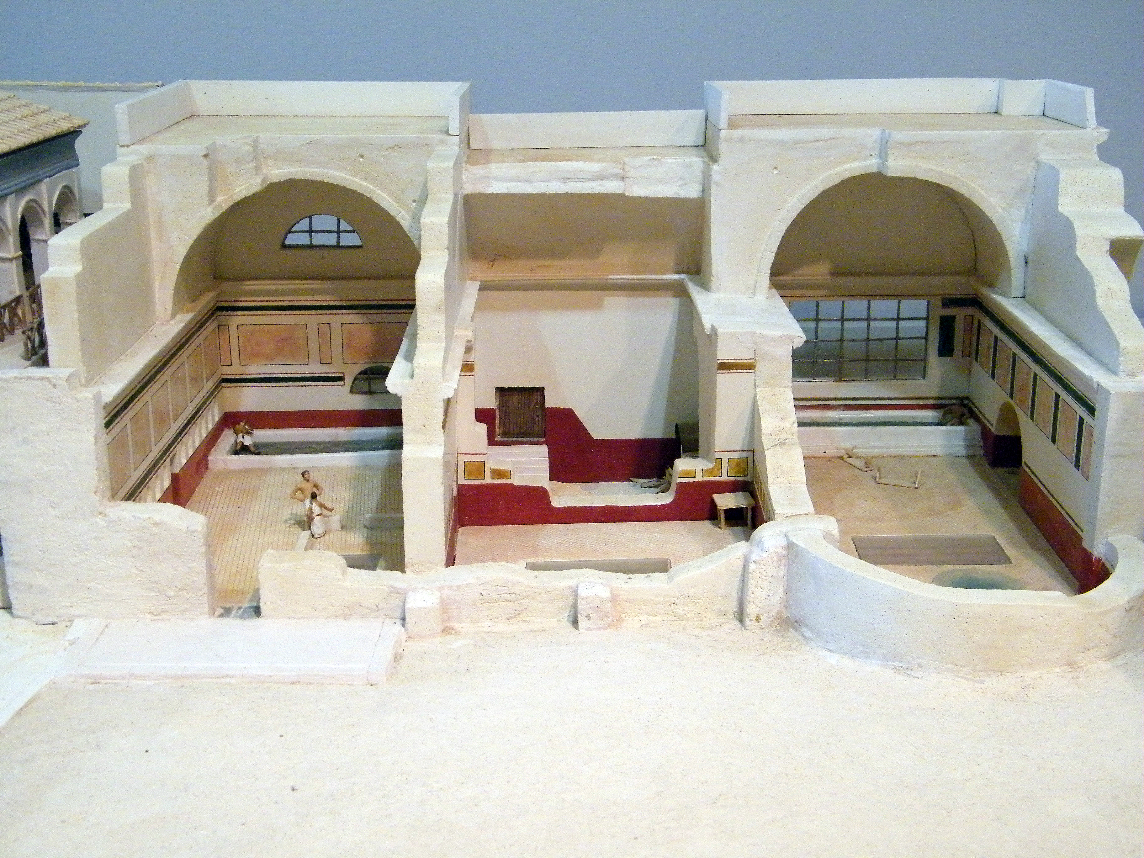 Model that recreates the Roman Thermal Baths of Mura. Archaelogical Museum of Lliria (MALL).